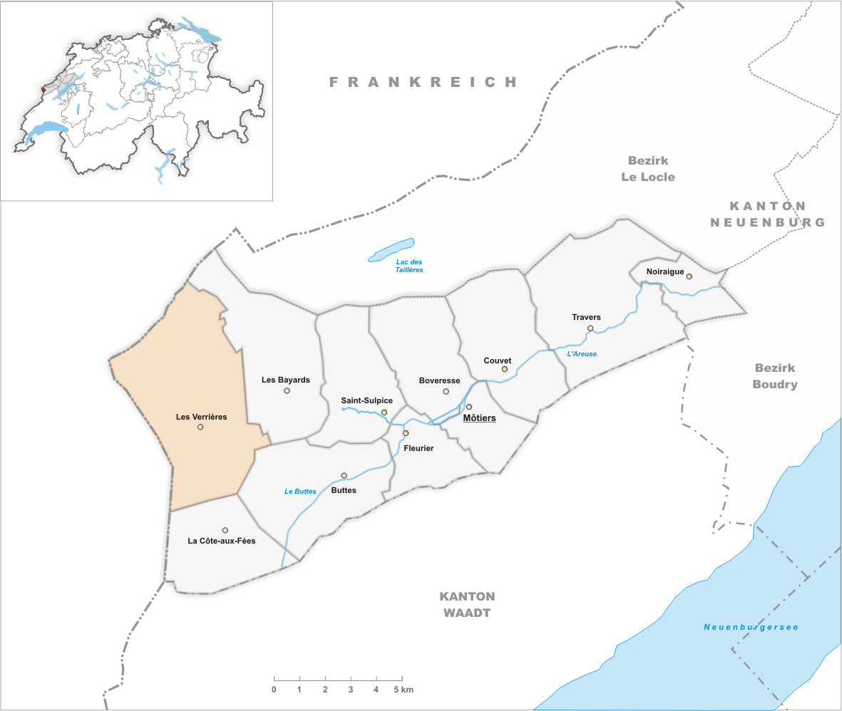 Municipality Les Verrières